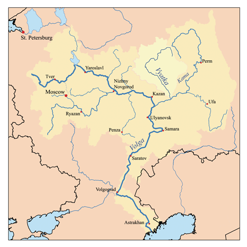 This is a map of the Volga River system with the Vyatka River highlighted. I, Karl Musser, created it based on USGS data.